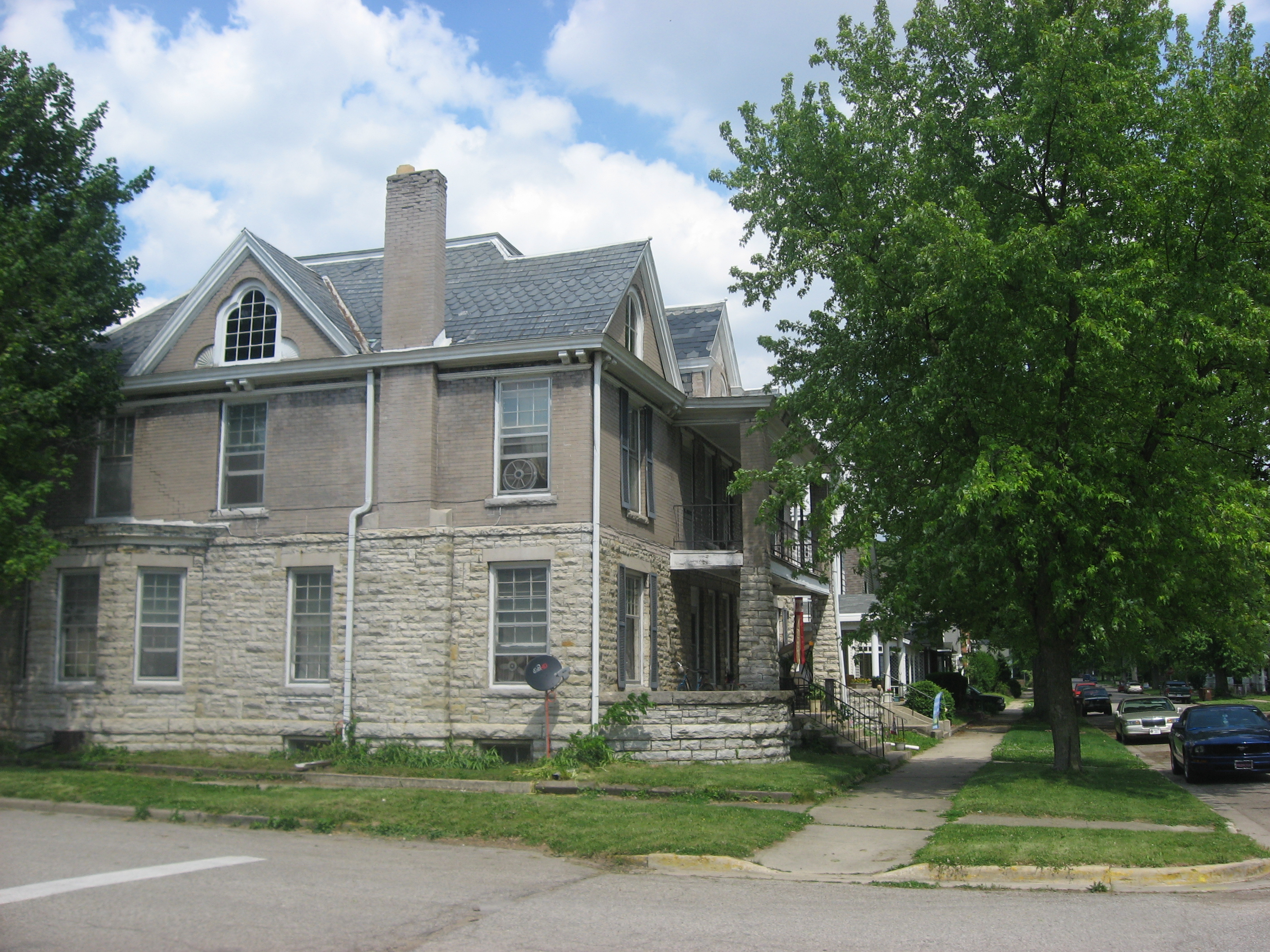 Houses on the northern side of the 100 block of E. Hill Street in Wabash, Indiana, United States; the closest house, built in 1911, is located at 106-108 E. Hill. This block is part of the East Wabash Historic District, a historic district that is listed on the National Register of Historic Places.